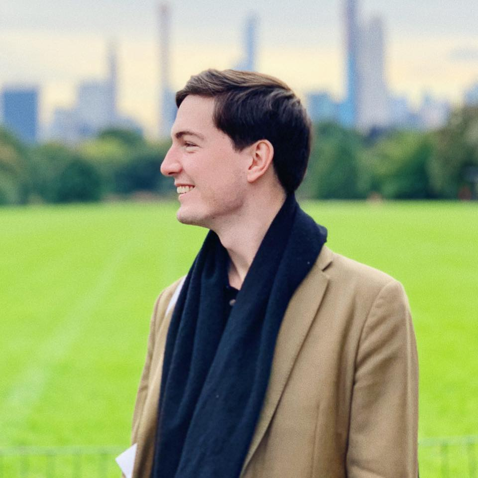 Torbjörn Averås Skorup, 2018